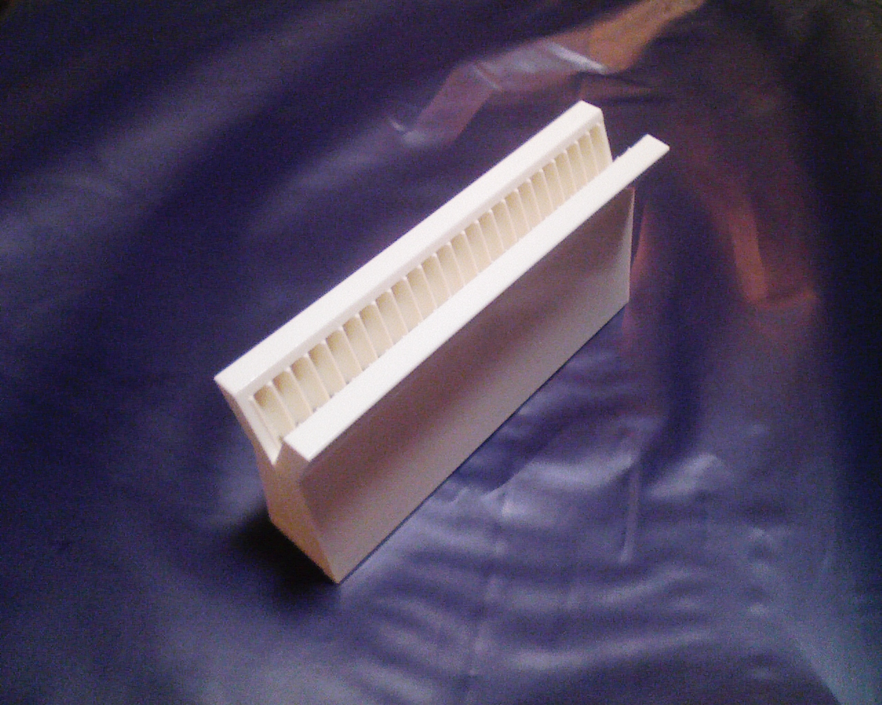 a chalk sharpner